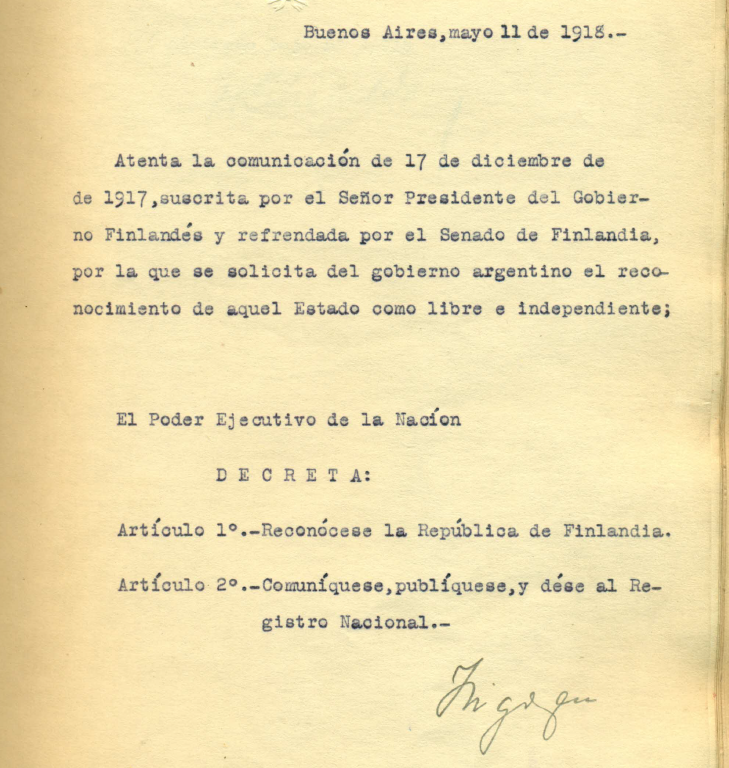 Argentine presidential decree recognizing Finland as an independent nation. Argentina was the first non European country to recognize Finland's independence.